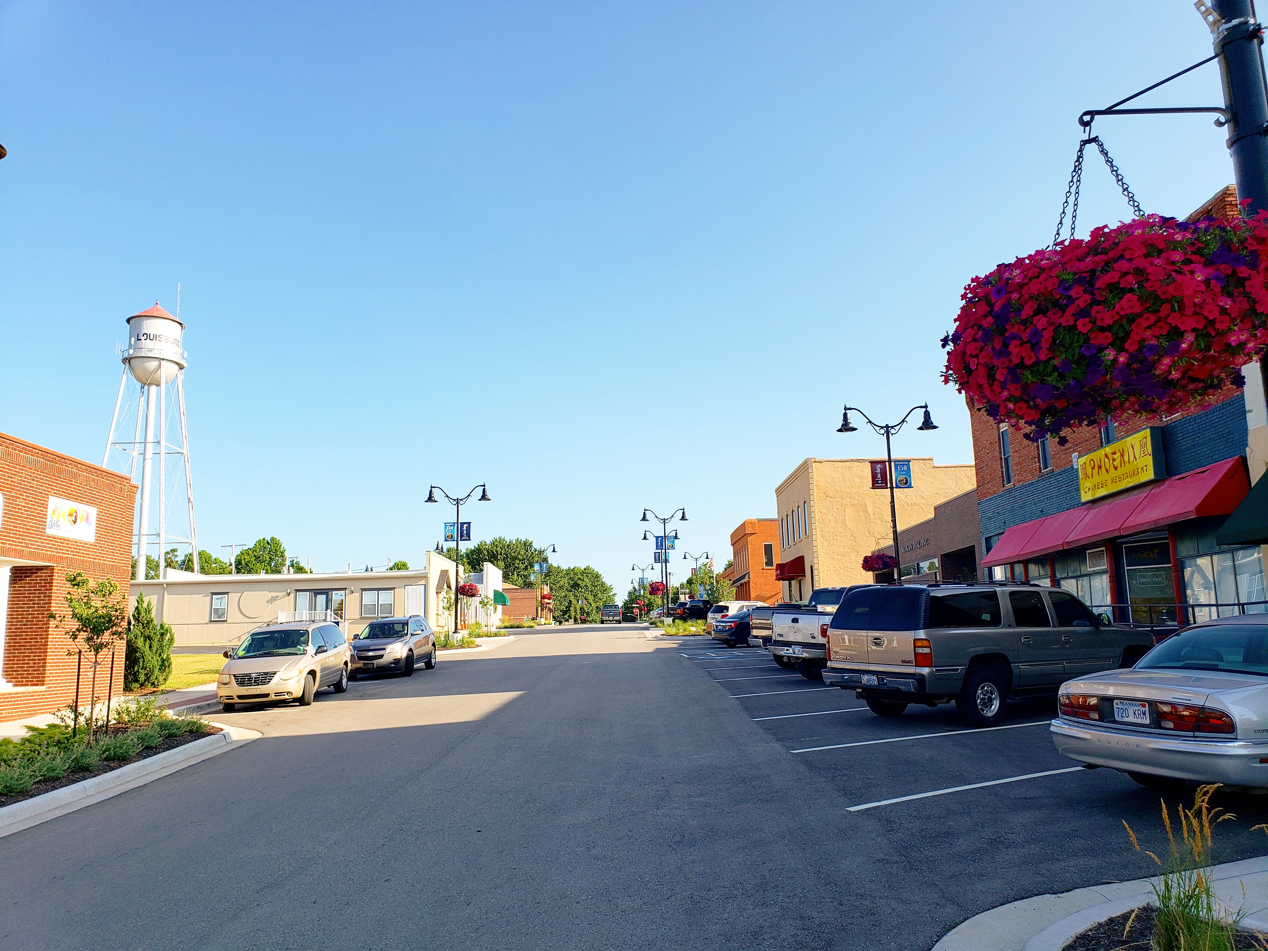 Louisburg, Kansas downtown Photo by Ian Ballinger